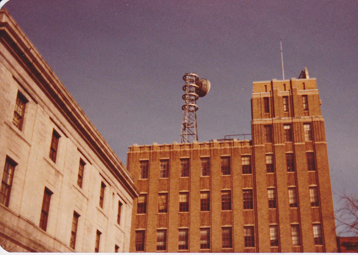 Bangor Maine Telephone Exchange Building (1931) with Old Post Office (1914-15) to left